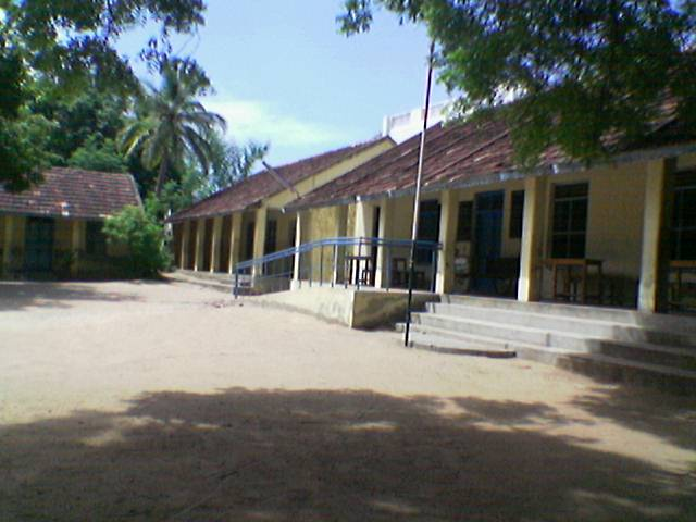 This is one of the government schools located in Neravy.